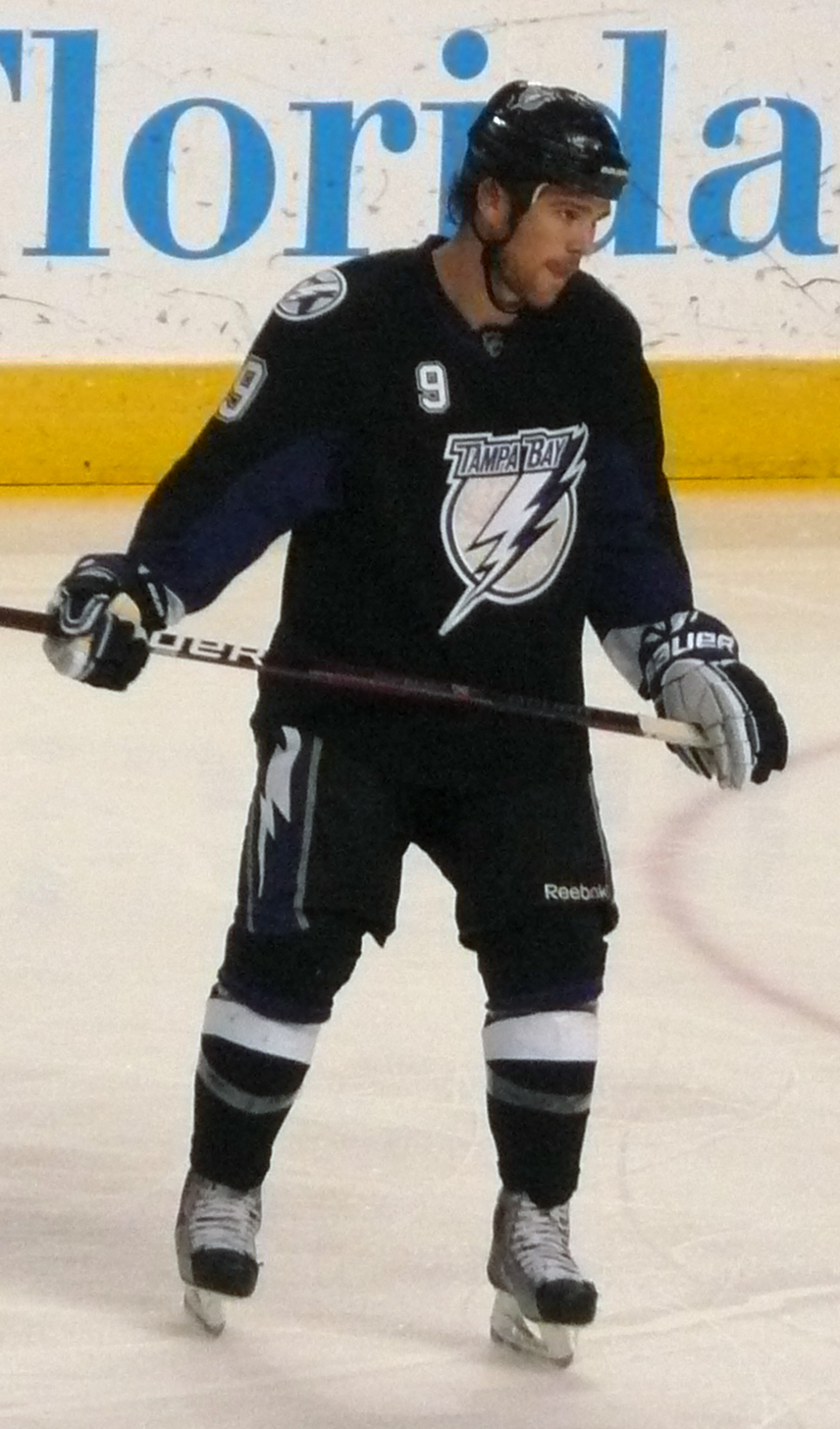 Steve Downie of the Tampa Bay Lightning skates at home against the Carolina Hurricanes at the St. Pete Times Forum in Tampa, FL on 3/23/2010.